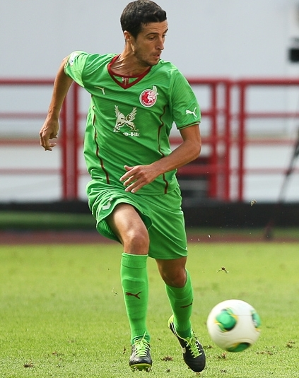 Iván Marcano with FC Rubin Kazan in 2013.